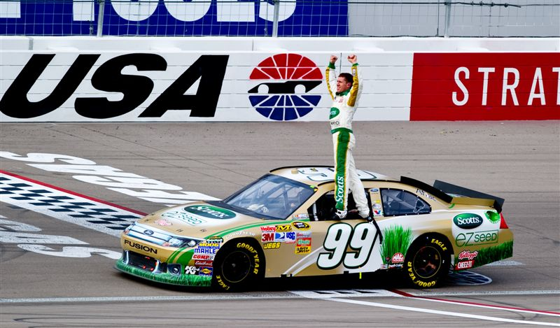 Carl Edwards celebrating his 2011 Kobalt Tools 400 win.